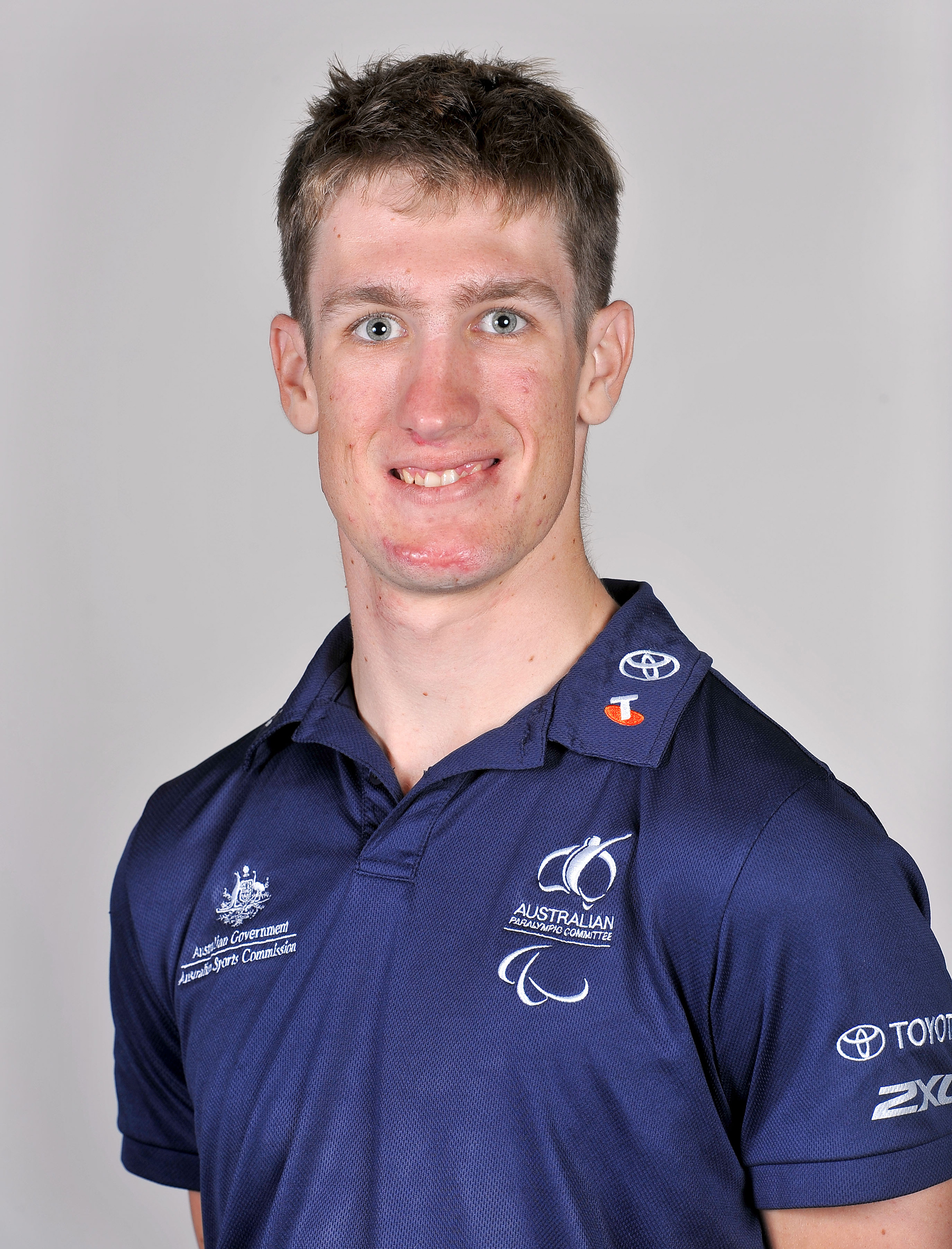 Portrait of Australian cyclist David Nicholas, 2012 Australian Paralympic (shadow) Team athlete